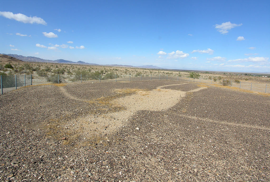 One of the Blythe Intaglios, prehistoric geoglyphs in the Mojave Desert, near Blythe, California.